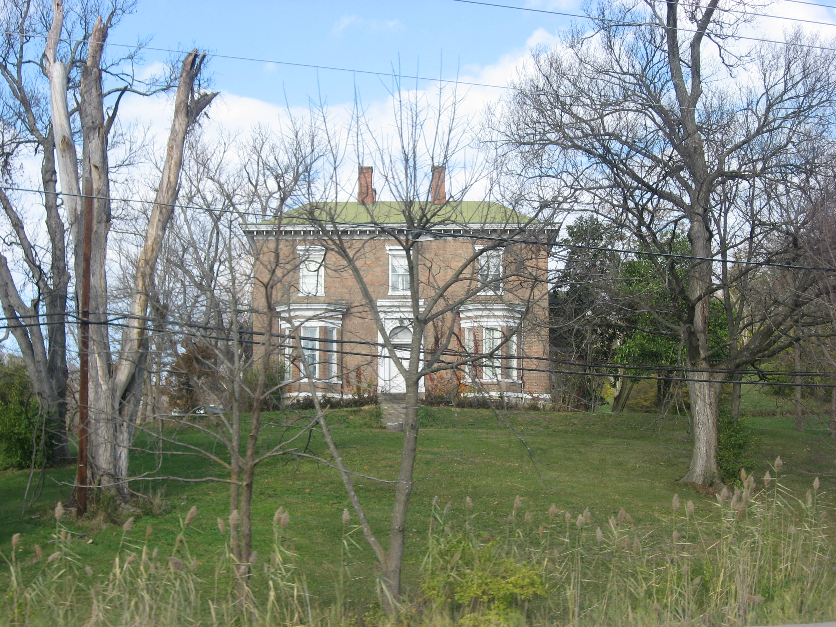 Distant view of the Daniel S. Major House, located at 761 W. Eads Parkway (U.S. Route 50) in Lawrenceburg, Indiana, United States. Built in 1857, it is listed on the National Register of Historic Places.